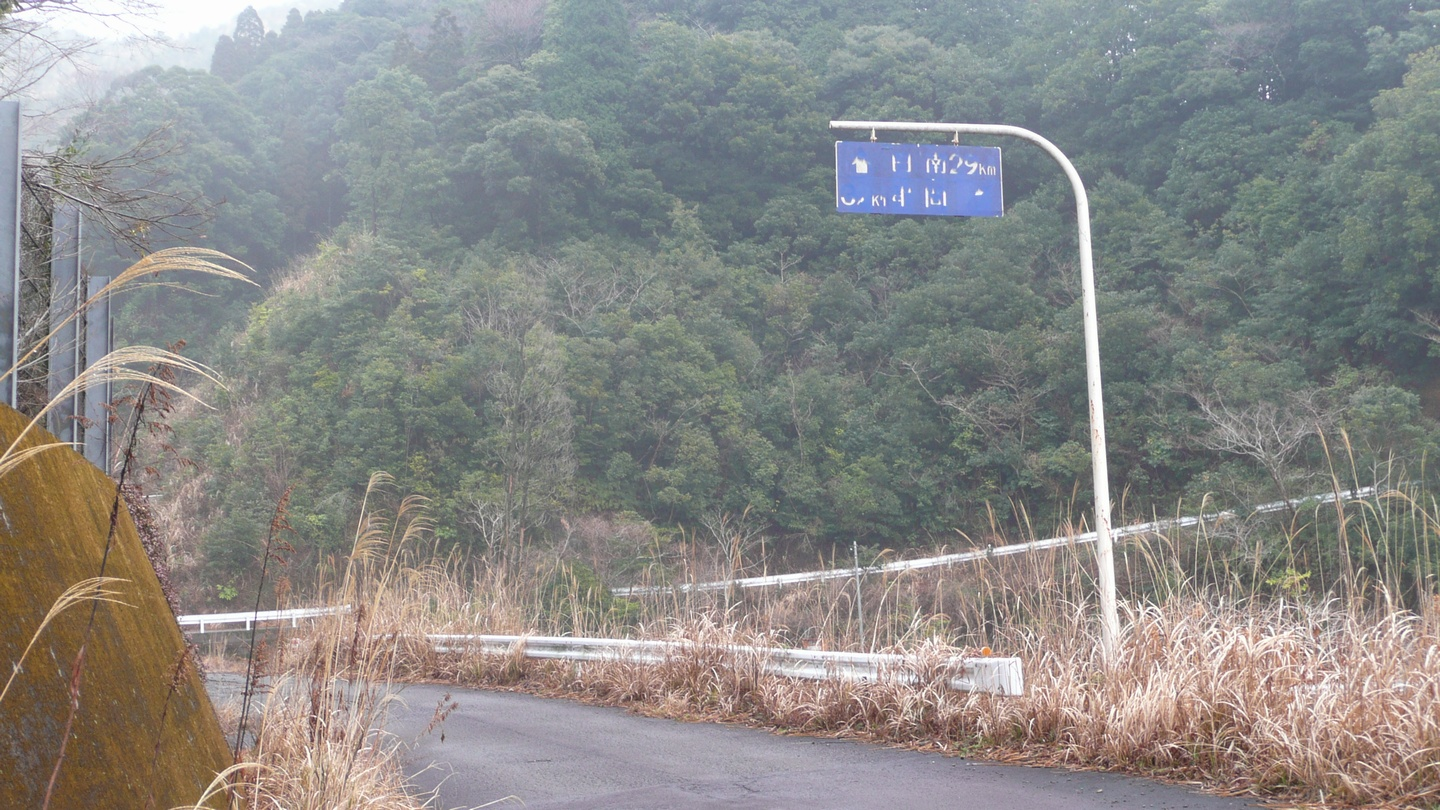 Former National Route 222 (Inotani, Miyakonojō City, Miyazaki, Japan)